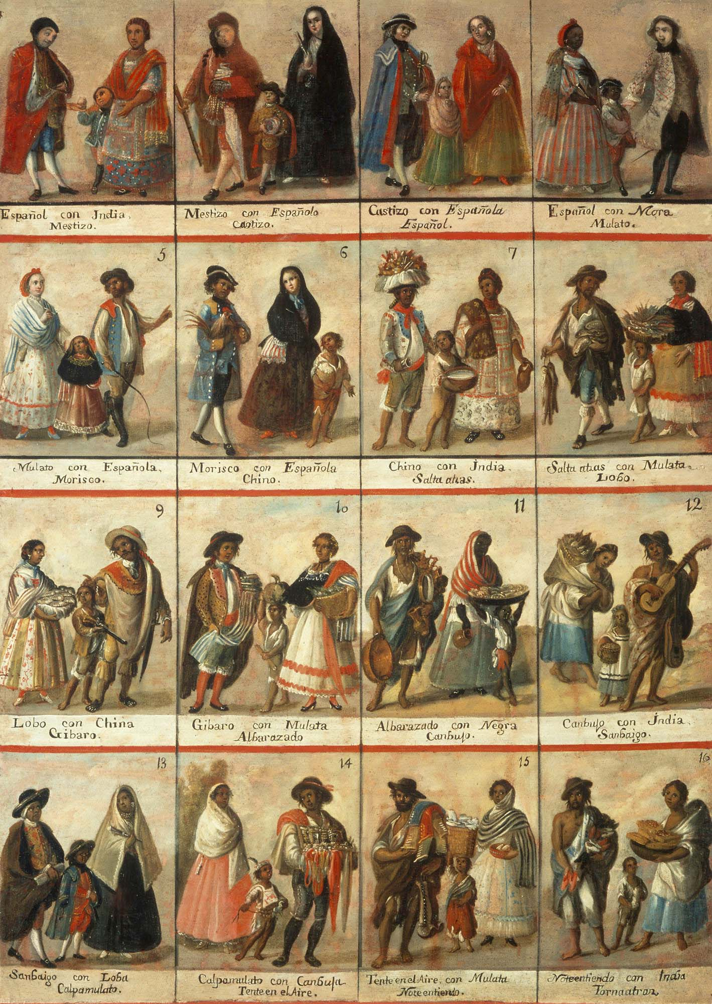 Casta painting containing complete set of 16 casta combinations (racial classifications in Spanish colonies in the Americas). Oil on canvas, 148 cm x 104 cm (58 1/4 inches x 40 15/16 inches).